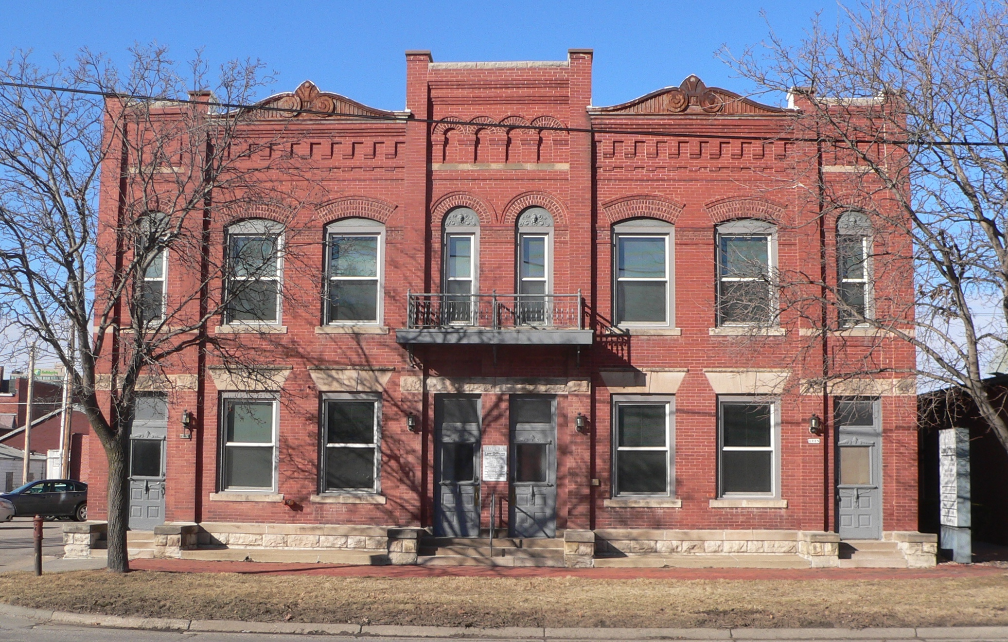 Helmer-Winnett-White Flats, located at 1022-1024-1028 K Street in Lincoln, Nebraska; seen from the south, across K.